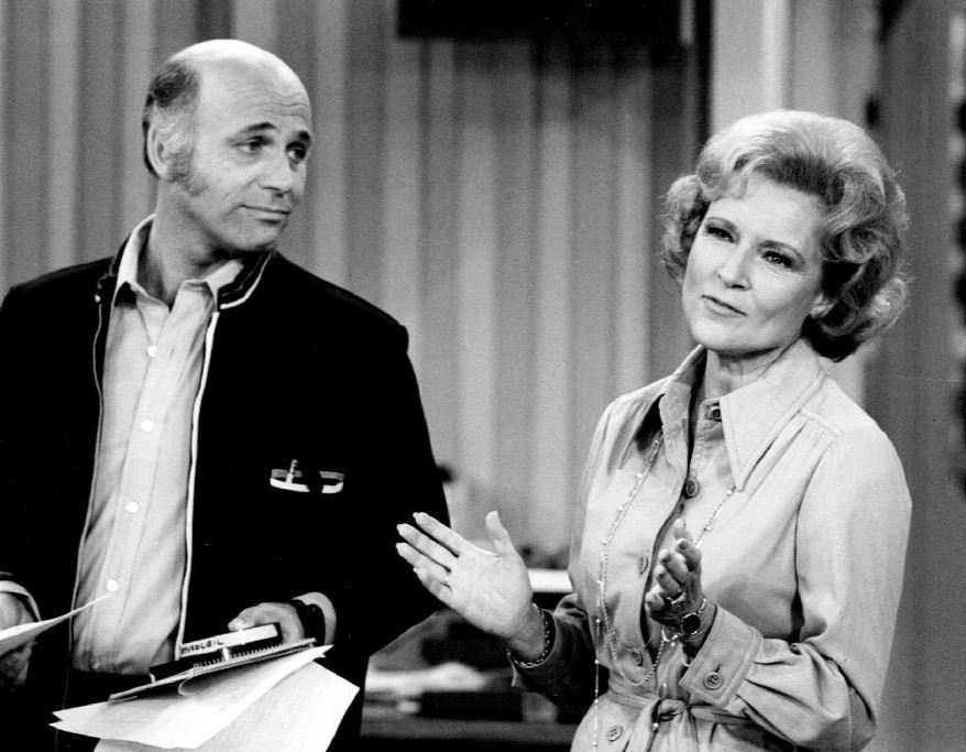 Photo of Gavin MacLeod as Murray Slaughter and Betty White as Sue Ann Nivens from The Mary Tyler Moore Show.